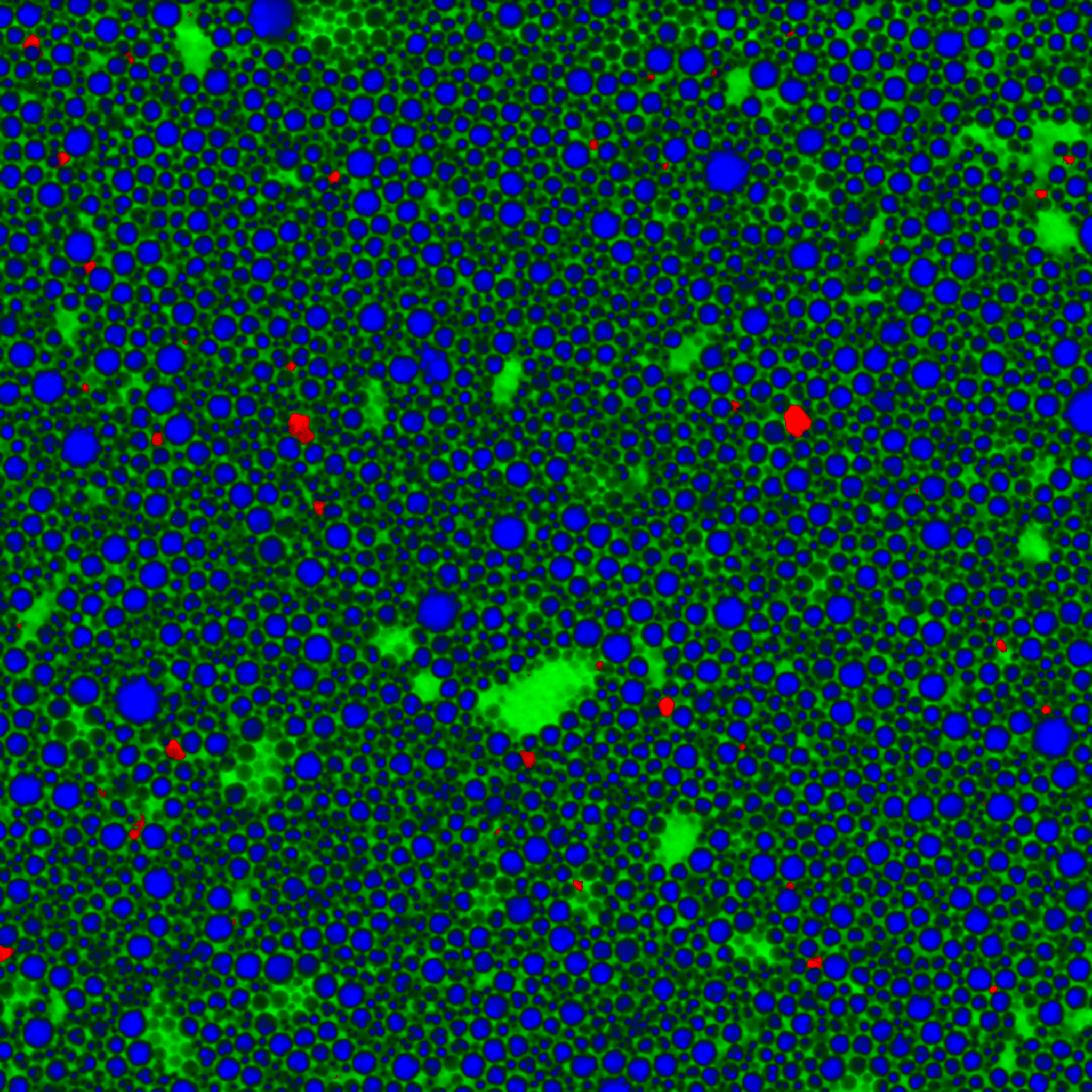 Confocal Raman image of a pharmaceutical emulsion. The chemical distribution of oil (green), the active pharmaceutical ingredient (API, blue) and silicon impurities (red) are shown.